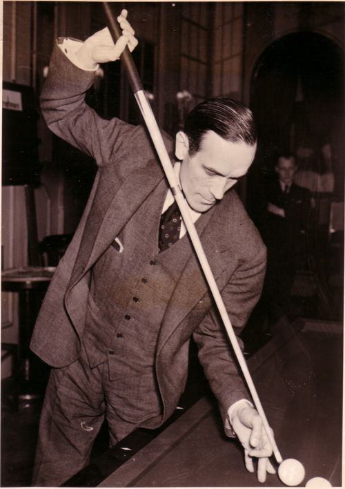 German carom billiards player